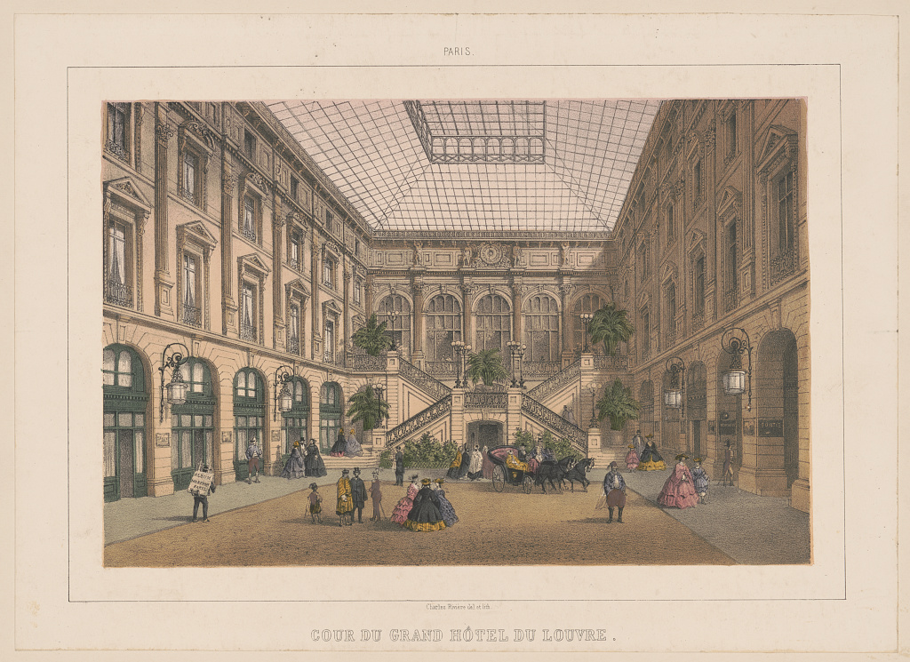 Title: Paris. Cour du Grand Hôtel du Louvre / Charles Rivière del. et lith. Abstract/medium: 1 print : tinted lithograph with hand-coloring ; sheet 22.9 x 31.8 cm, on mount 27.9 x 35.6 cm.